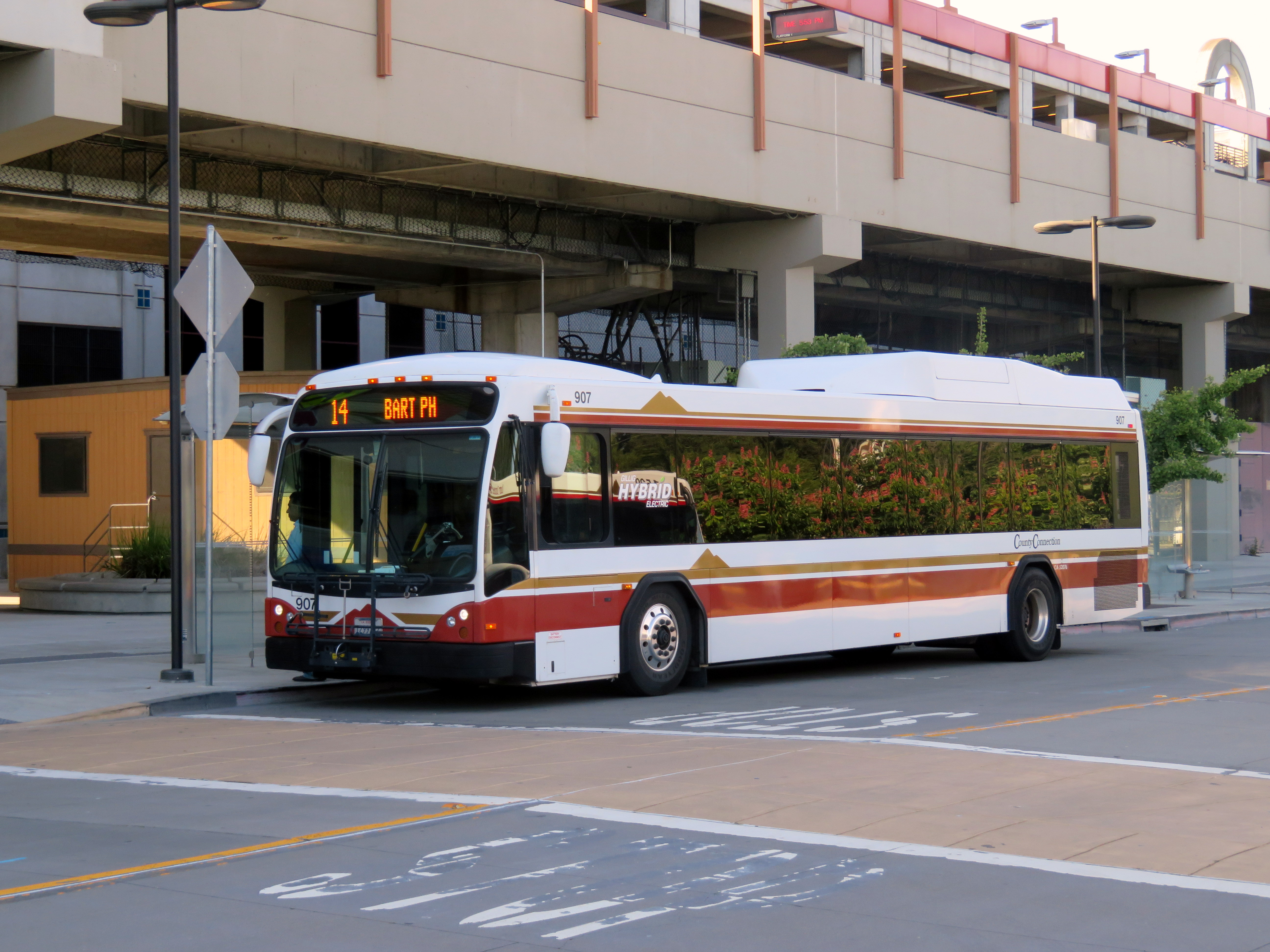 County Connection route 14 bus at Pleasant Hill/Contra Costa Centre station in May 2018